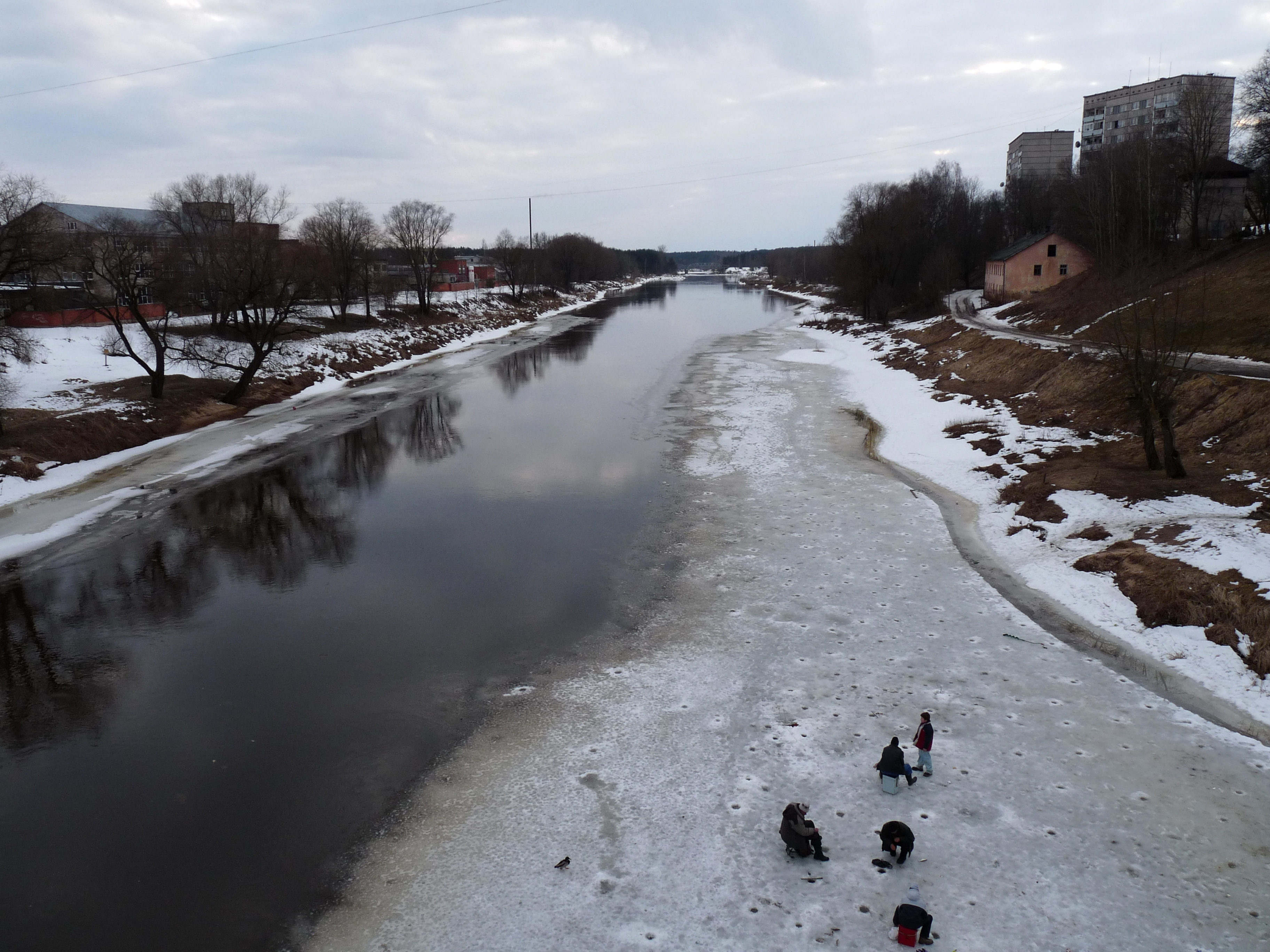 Icefishers on the Gauja River in Valmiera, Latvia